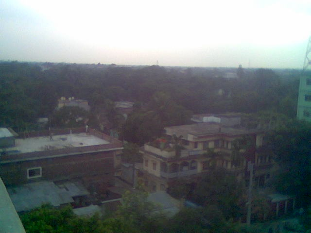 A picture of rangpur town